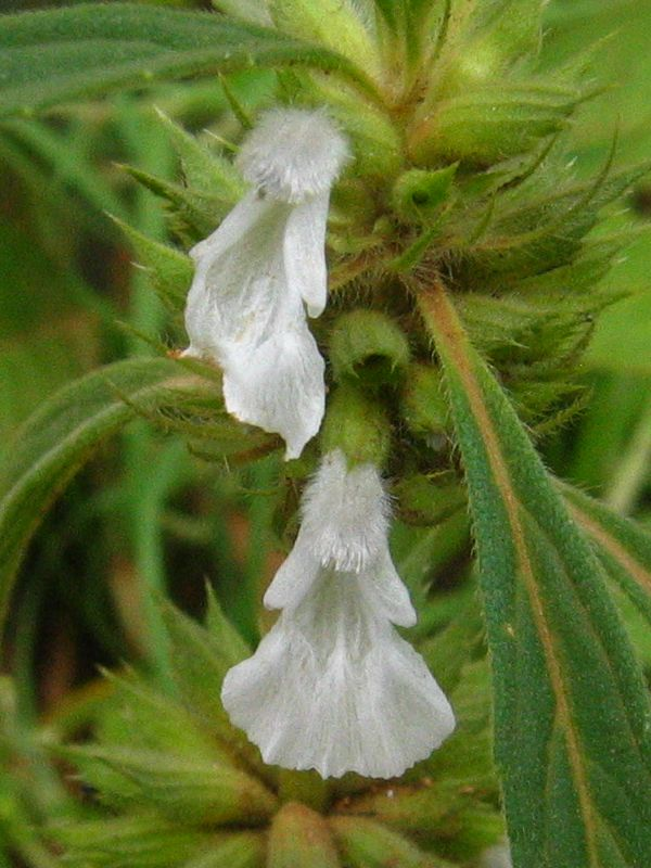 Wild Leucas aspera (Tamil: தும்பை tumpai). This photo was taken in Nilgiris Dist., Tamil Nadu, India. The flower gives its name to the "tumpaittinai" (தும்பைத் திணை), one of the seven Puram themes (tinai) of classical Tamil poetry, dealing with the heat of battle.